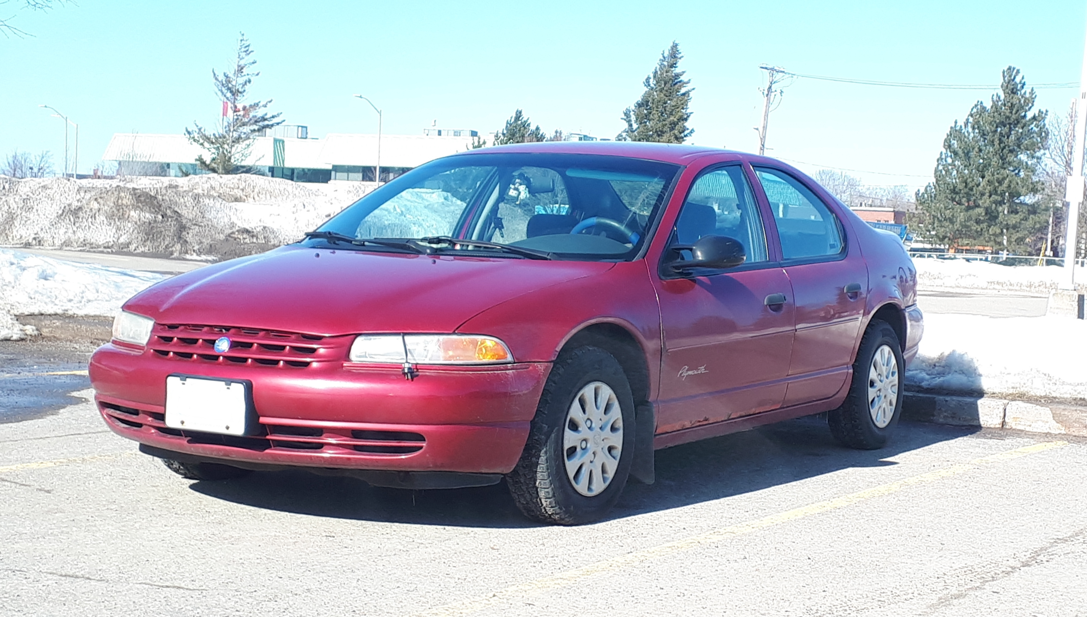 1996 - 2000 Plymouth Breeze photographed in Sault Ste. Marie, Ontario, Canada